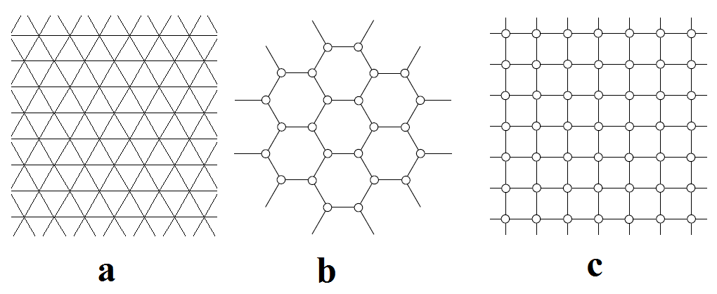 triangular, square and hexagonal grids